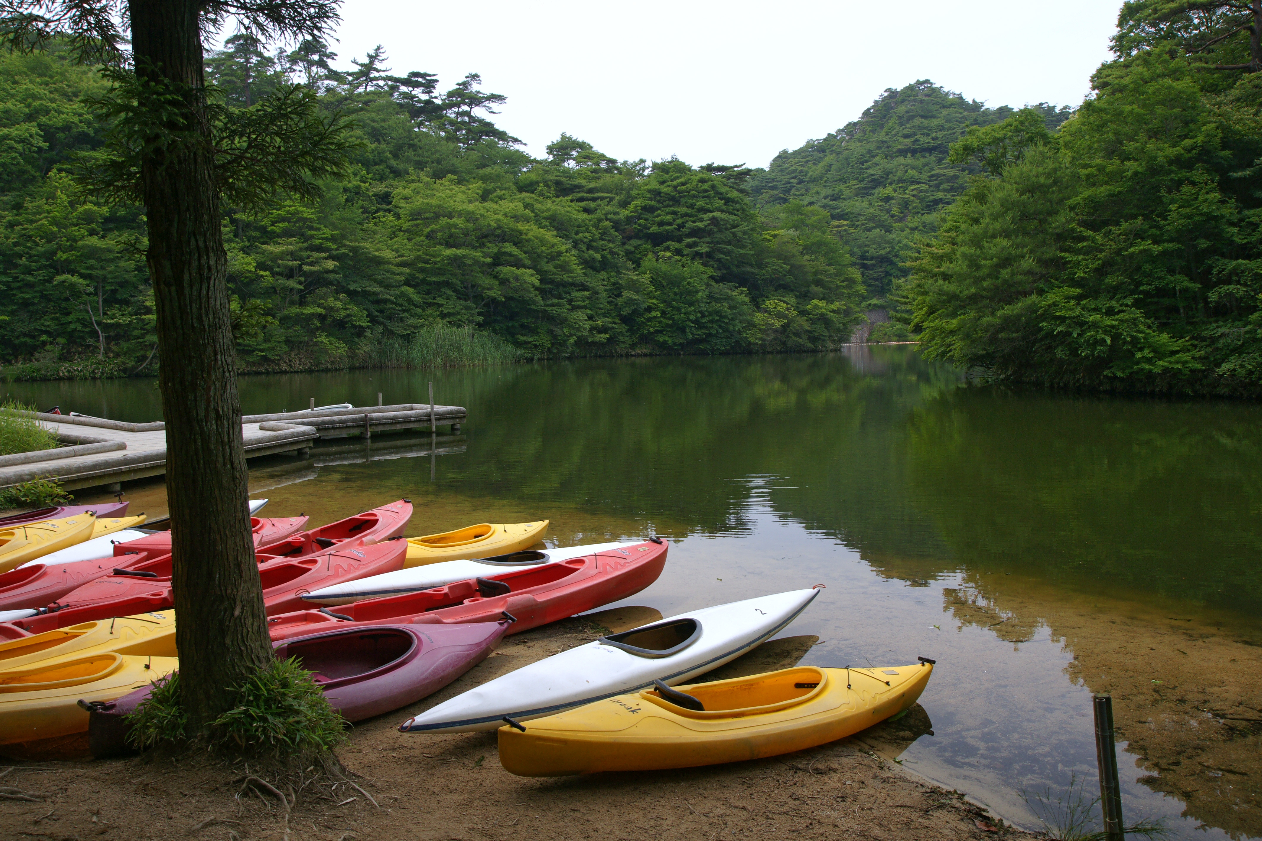 Lake Hodaka, Kobe, Hyogo prefecture, Japan